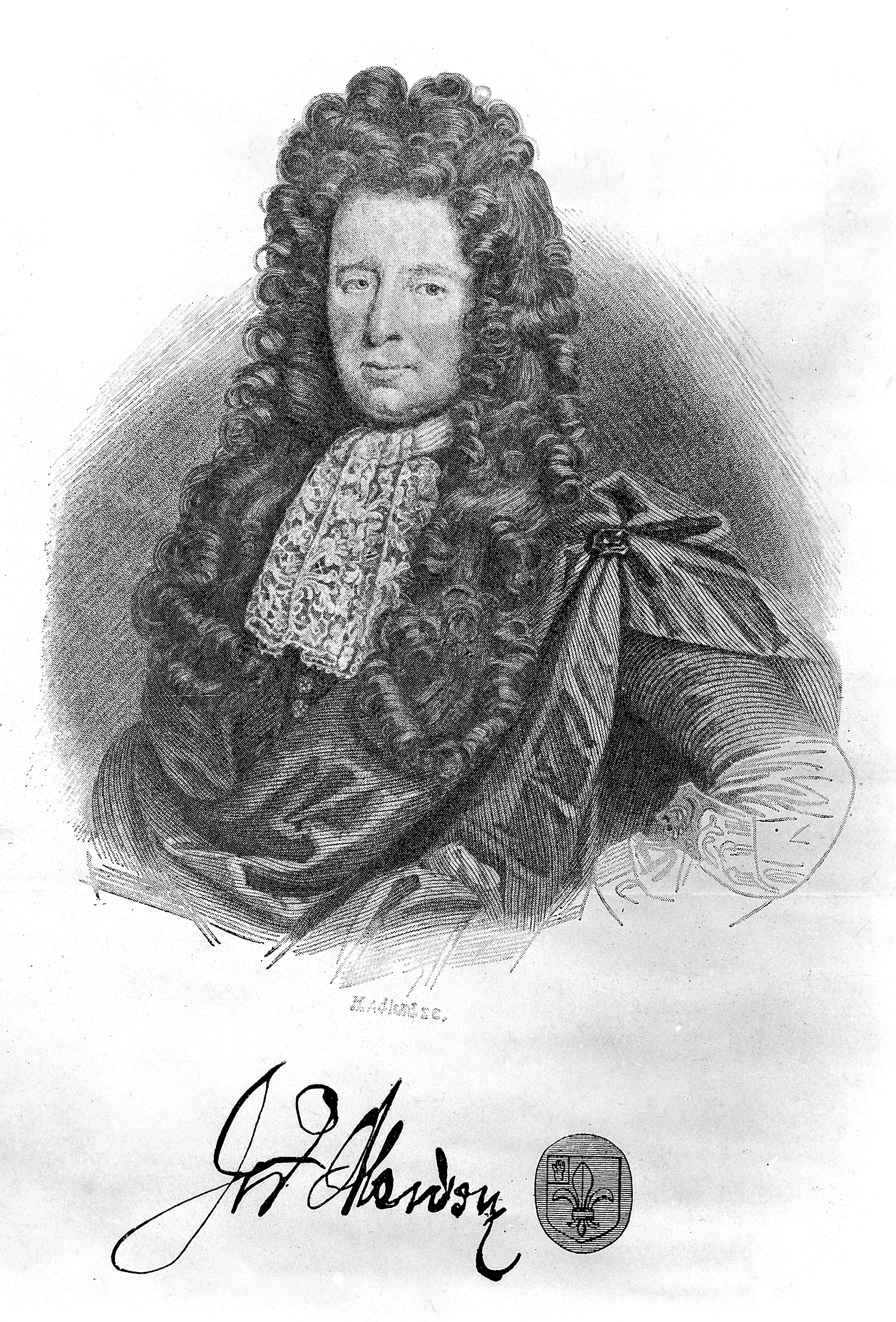 Portrait of Sir John Morden, merchant and founder of Morden College for didstressed merchants. From a leaflet published by the College after a line engraving. Wellcome Images Keywords: Morden, Sir John